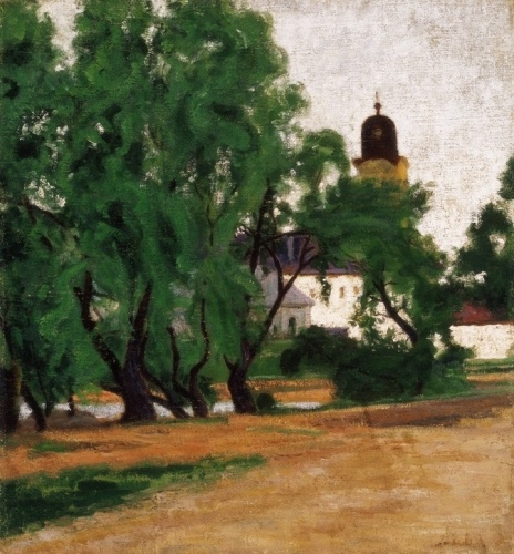 Baia Mare (landscape)